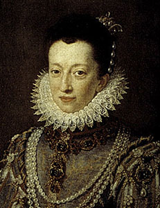 Christine of Lorraine, Duchess of Tuscany, second child of Duke Charles II of Lorraine and Claude of Valois (daughter of King Henry II of France and Caterina de' Medici), wife of Duke Ferdinando I de' Medici of Tuscany, mother of Duke Cosimo II de' Medici of Tuskany, 17th century. Istituto e Museo di Storia della Scienza.